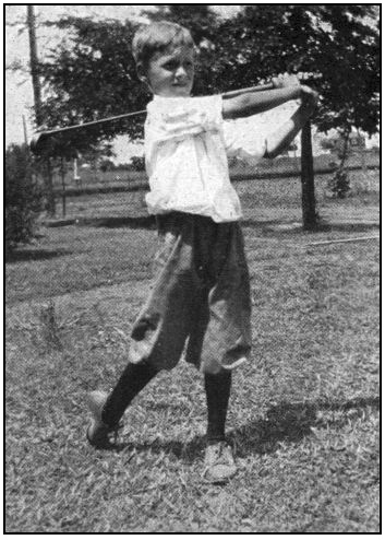 Bobby Jones at the age of 9 in 1911. The original caption read: "Robert P. (sic) Jones, Jr., Junior Champion of the Atlanta Athletic Club."